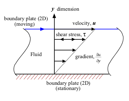 Laminar shear in fluid.